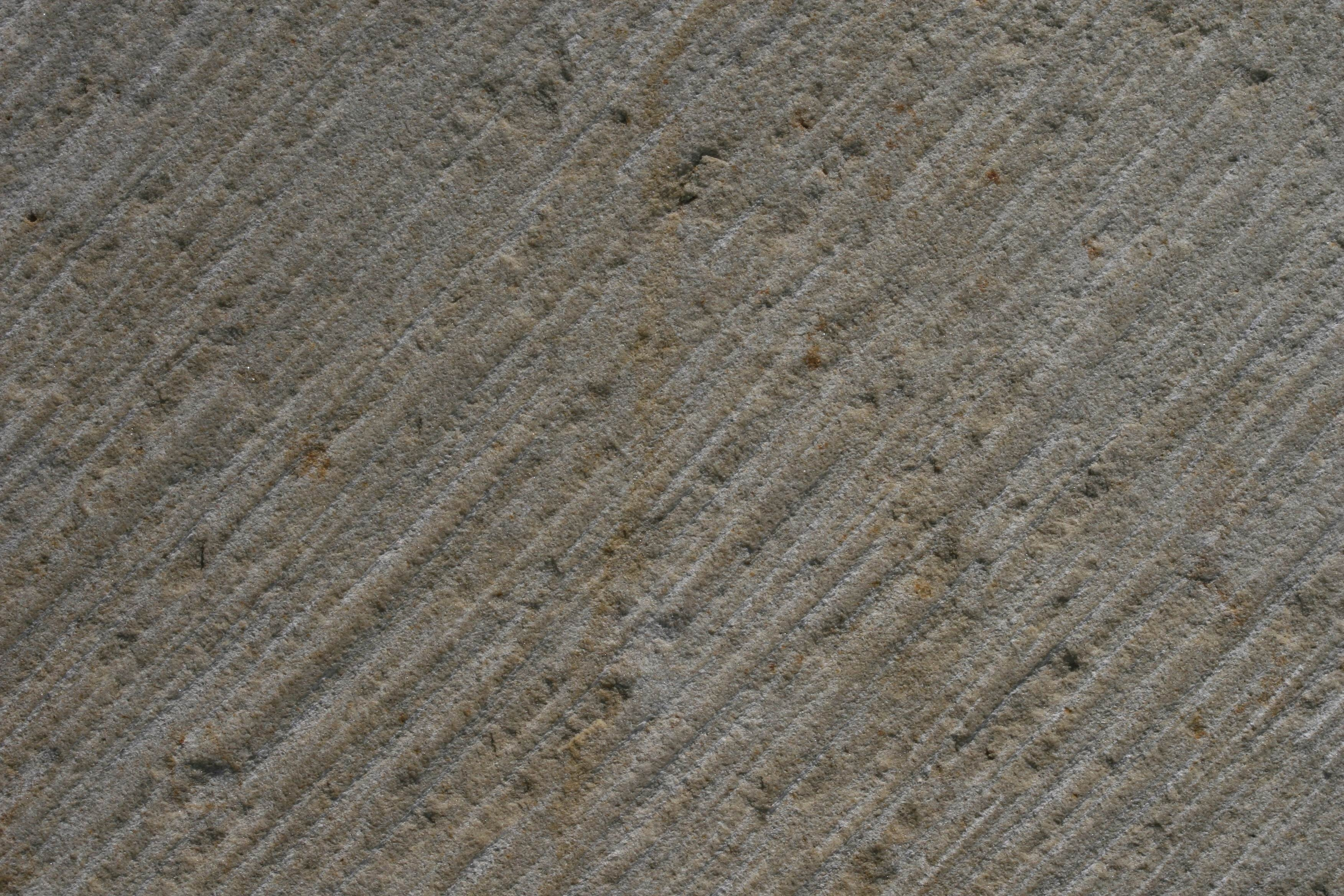 The traces of a stonemason's axe on a sandstone surface de